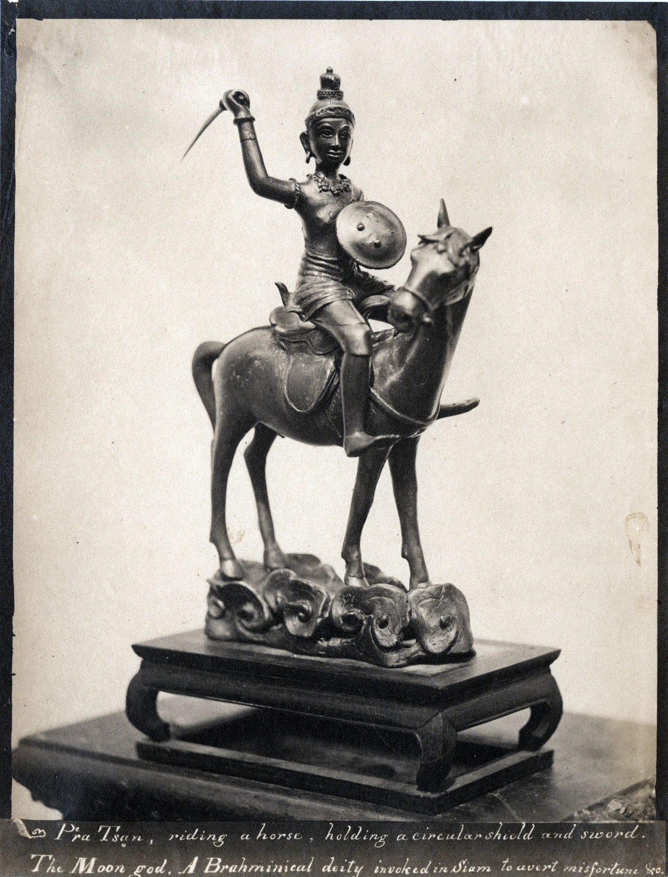 Phra Chan riding a horse holding a circular shield and sword